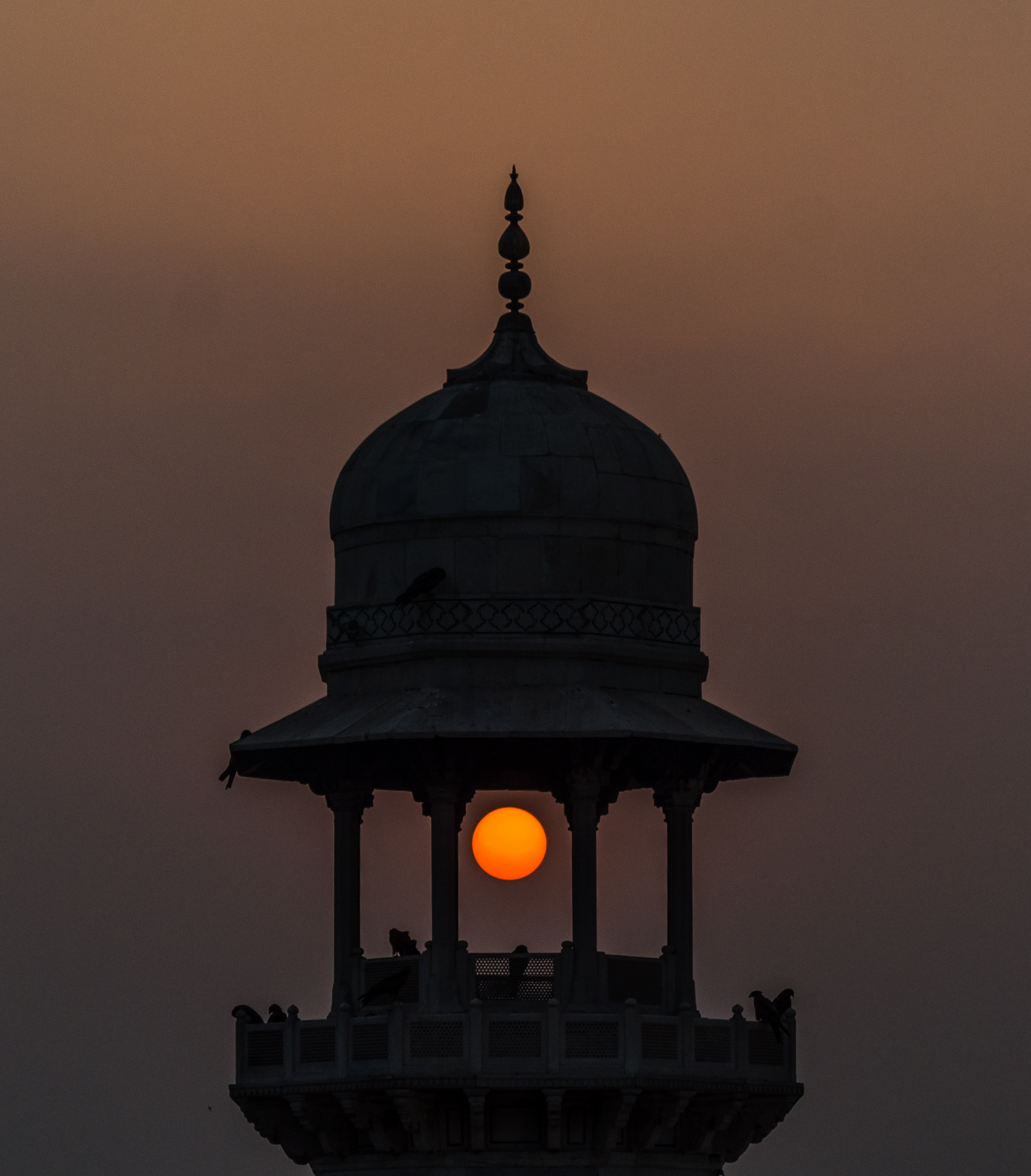 Jahangir’s Tomb and compound This is a photo of a monument in Pakistan identified as the PB-64